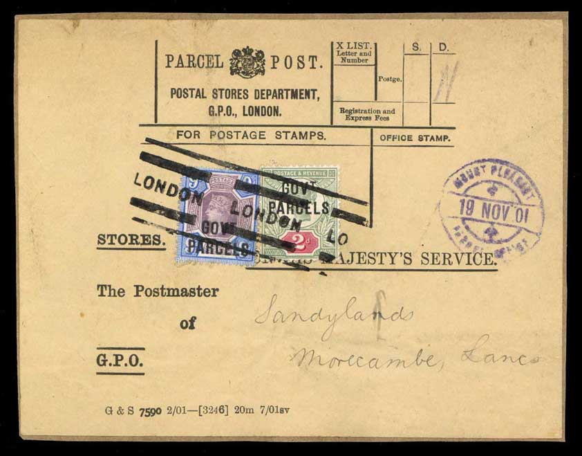 1901 Parcel Post label. Govt. Parcels: 1887–90 9d. and 1891–1900 2d. tied by clear LONDON roller on 1901 (Nov. 19th) Postal Stores Department large PARCEL POST label type 17 with facsimile of unknown small stores label with Arms type IIb and Registration and/Express Fees, sent to Morecambe and franked at the 11d. rate for 8–9lbs.